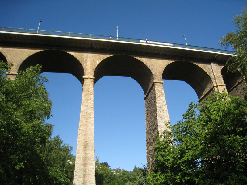 Viaduct Passarelle Luxembourg